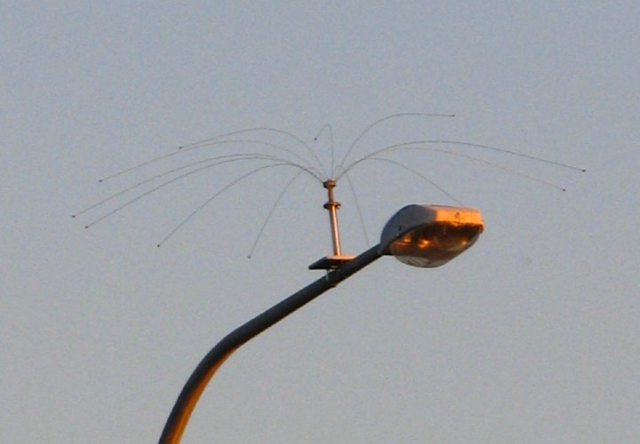 Daddi Long Legs bird deterrent on a 45-degree bended light pole, Houghton Highway, Queensland, Australia.